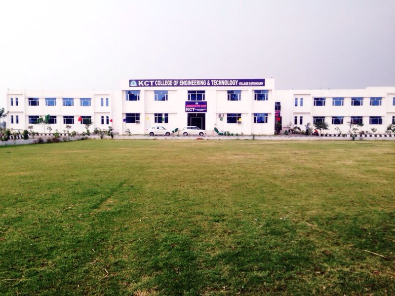 KCT College of Engineering